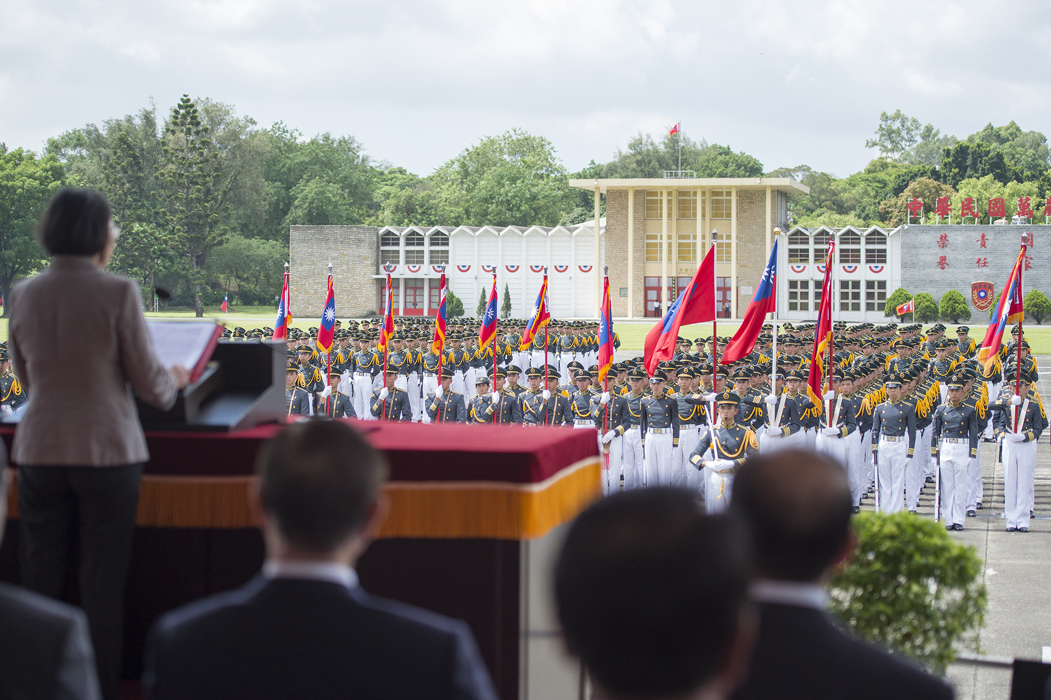 President Tsai travels to Kaohsiung City to attend the 92nd anniversary celebration of the ROC(Taiwan) Military Academy. (2016/06/16)